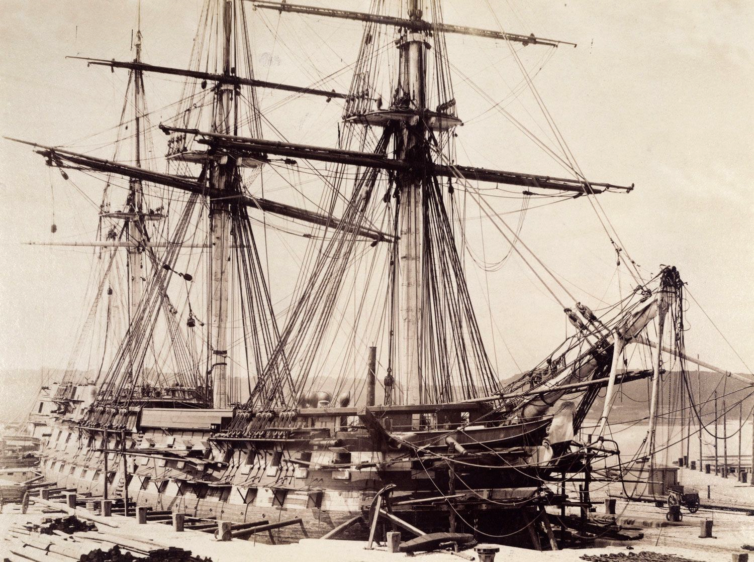 Albumen print of HMS 'Hannibal' fitting for the Black Sea fleet; 17 x 22.4 cm